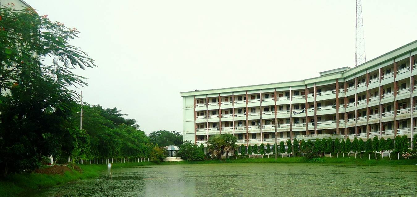 it is the science bulding picture of jkkniu